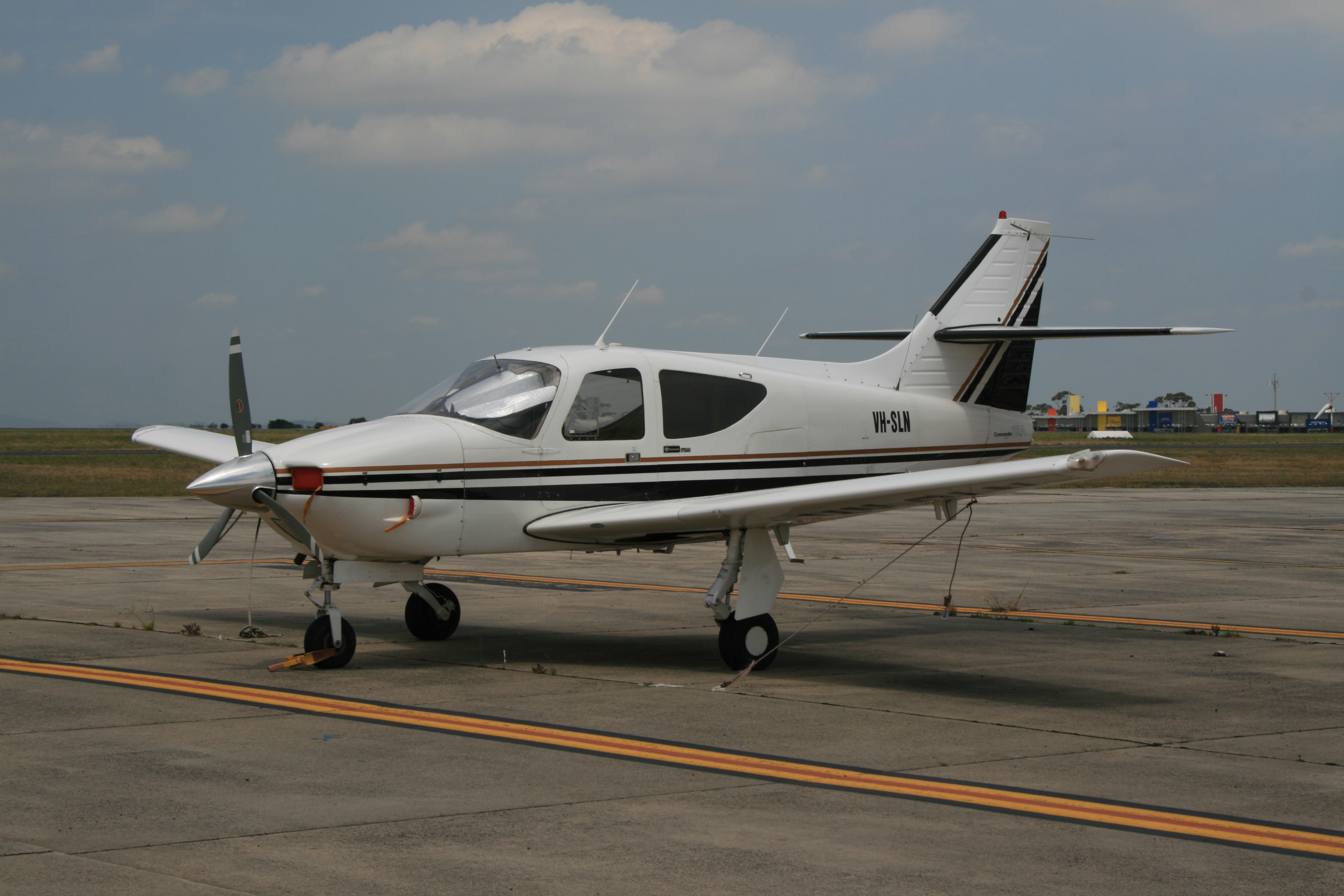 A Rockwell Commander 112A, VH-SLN (c/no. 486, the fifth-from-last to be built), at Melbourne's Essendon Airport in Australia.